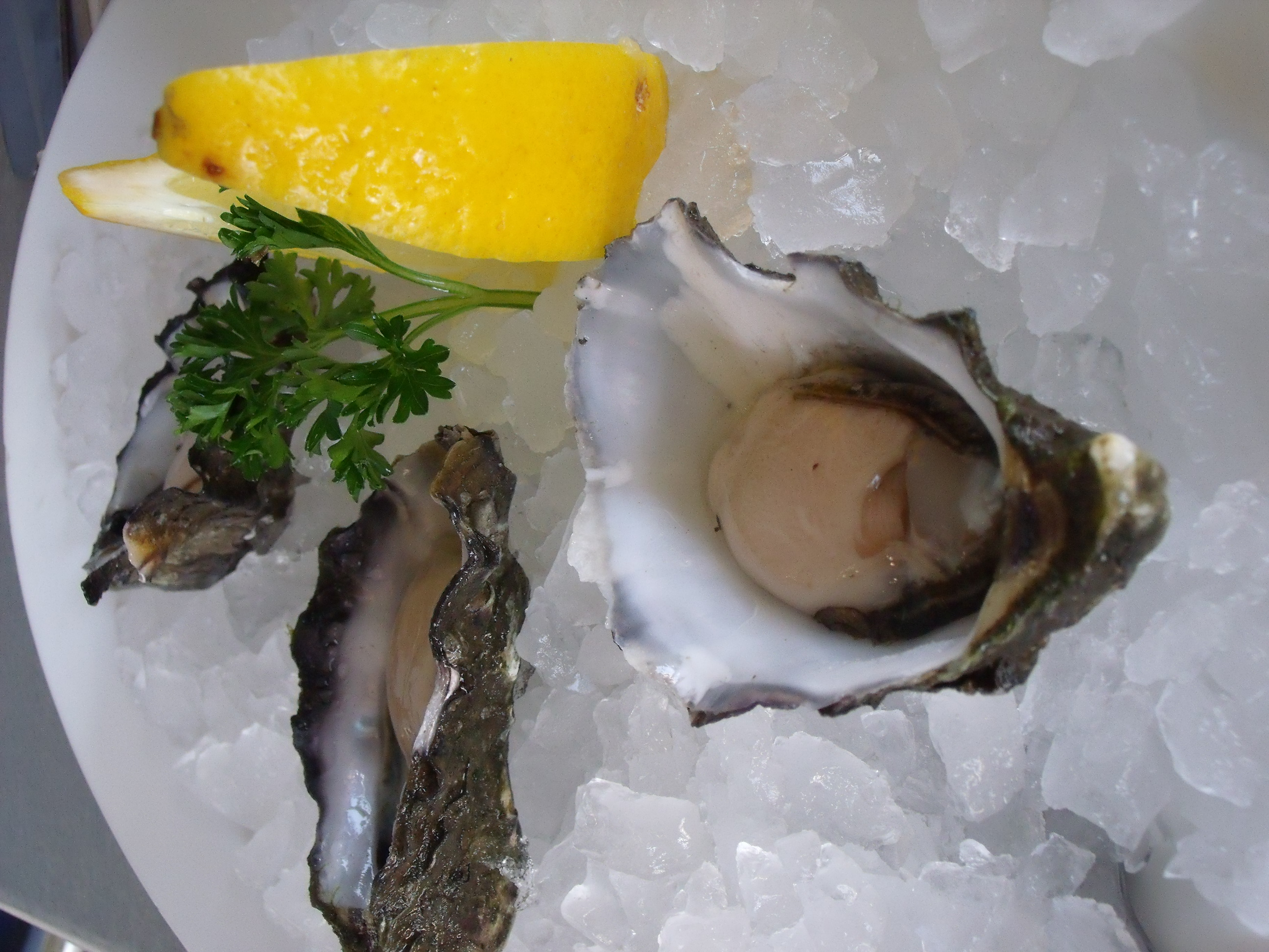 Oysters served in Fremantle, Western Australia. (Nice!!!)